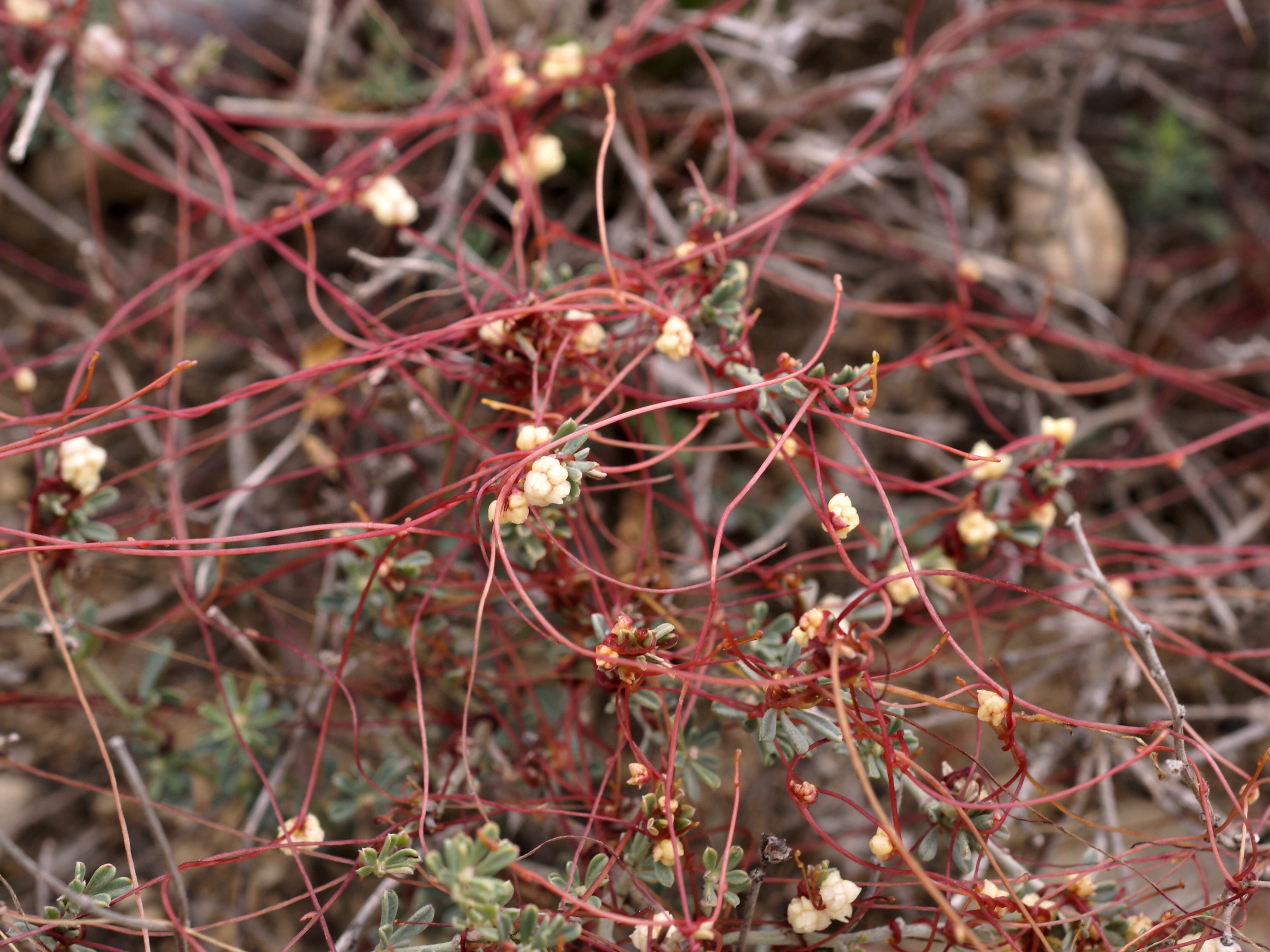 near el Perelló, Catalonia, Spain